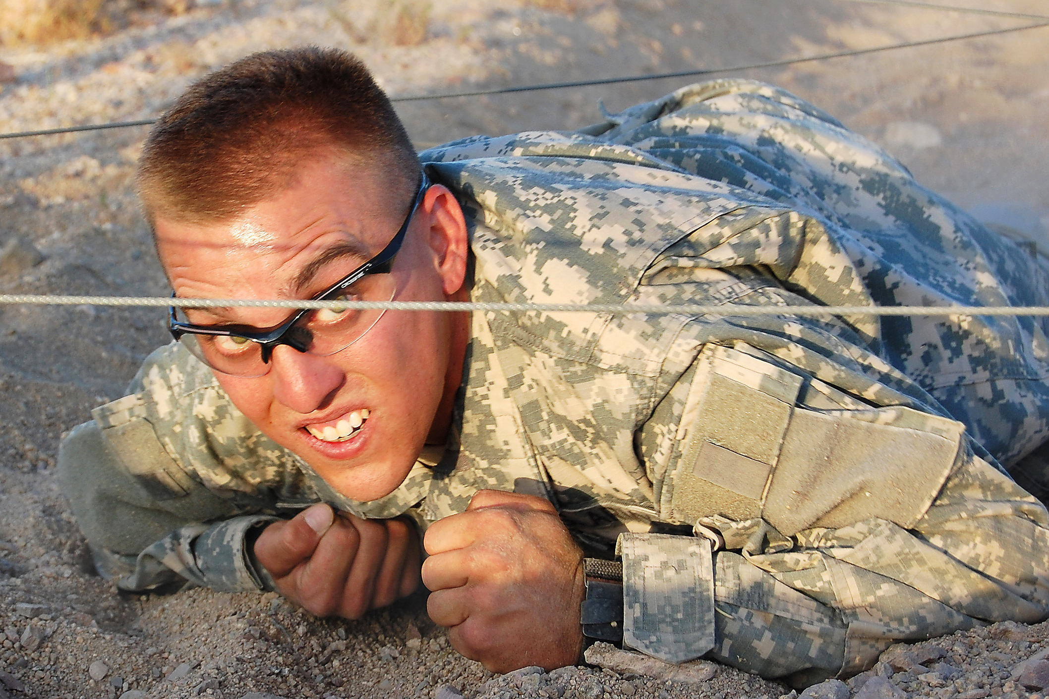 U.S. Army Spc. Daniel Worthington high-crawls through the dirt during the obstacle course portion of the Pre-Ranger Course in the Mojave Desert, Fort Irwin, Calif., May 18, 2009. The purpose of the 14-day course is to prepare soldiers to succeed in the U.S. Army Ranger School. U.S. Army courtesy photo See more at Army.mil